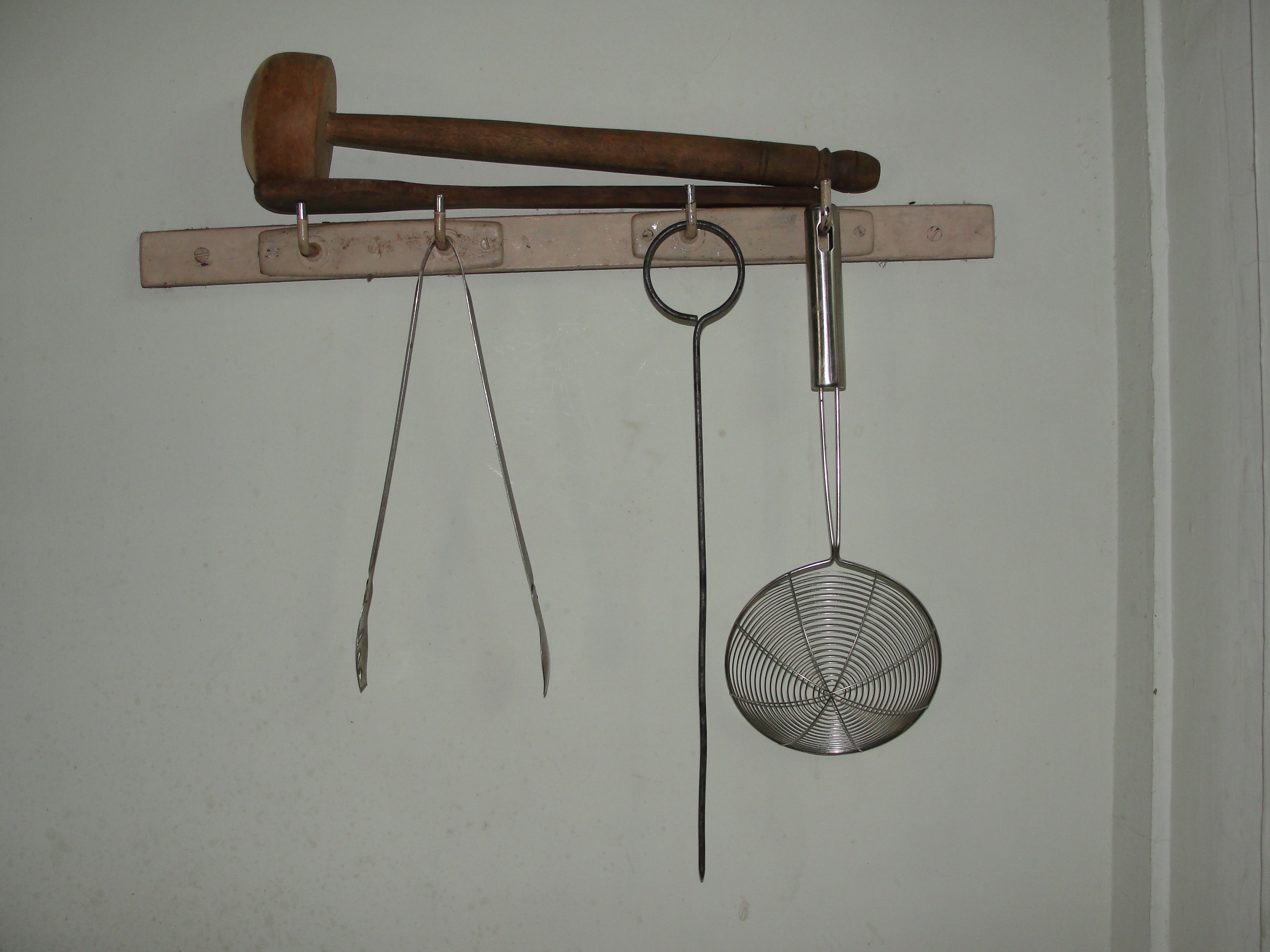 Kitchen utensils of the Tamils.